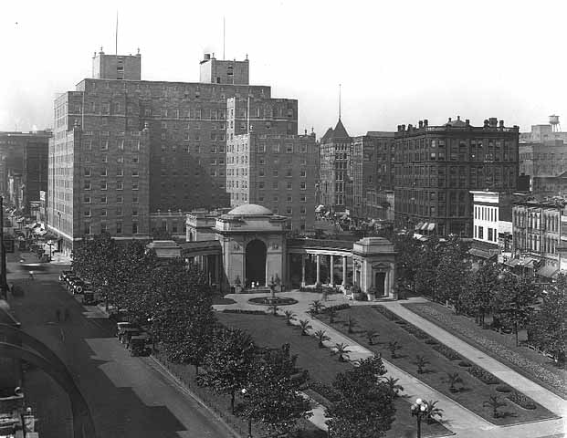 Nicollet Hotel, Minneapolis Photograph Collection 1924 Location no. MH5.9 MP3.1N p191 Negative no. 5835-B